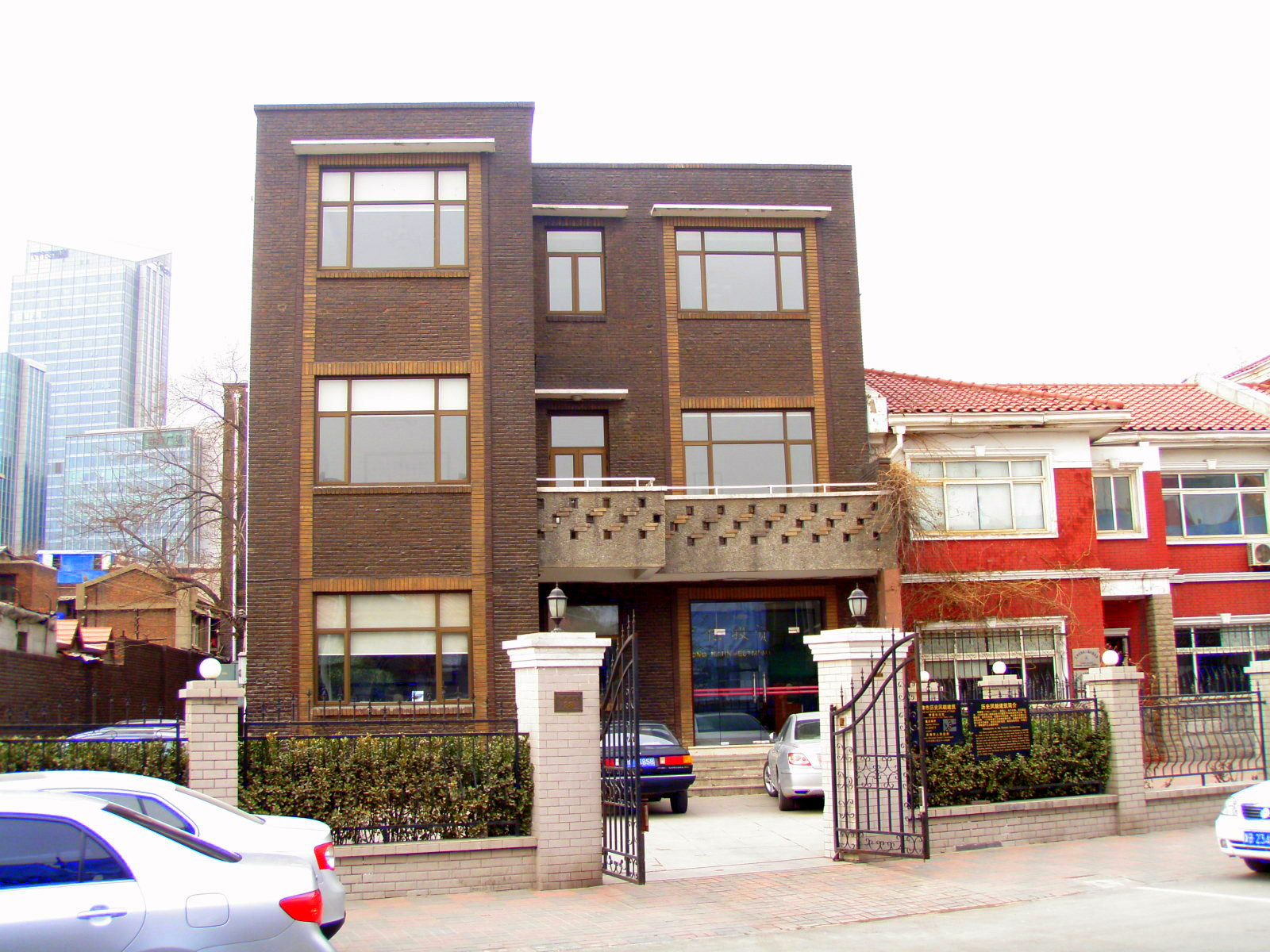 Residence of Eric Henry Liddell, which is located on Chong qing Rd. NO.38 ( Cambridge Rd NO.70 )